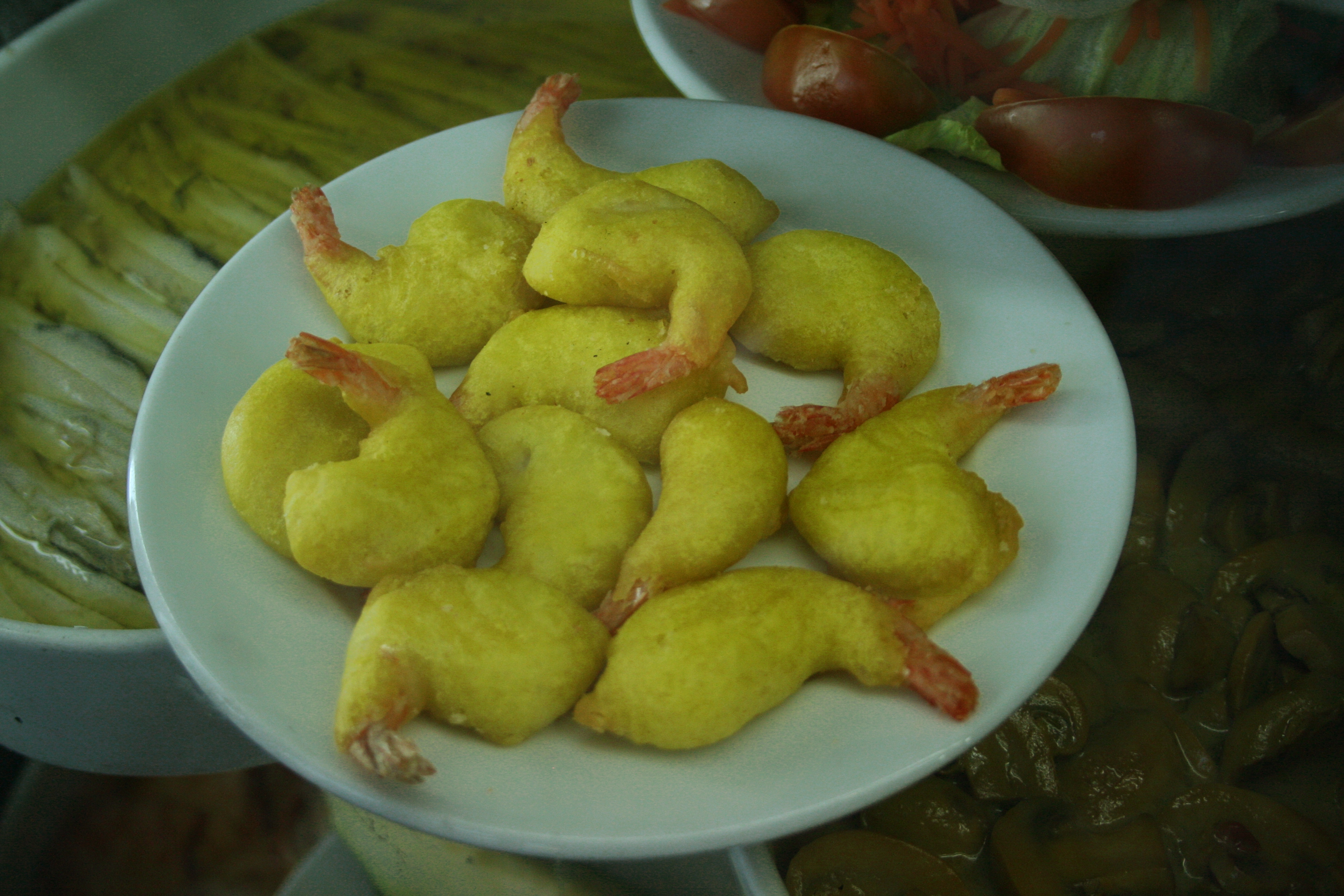 prawns in batter